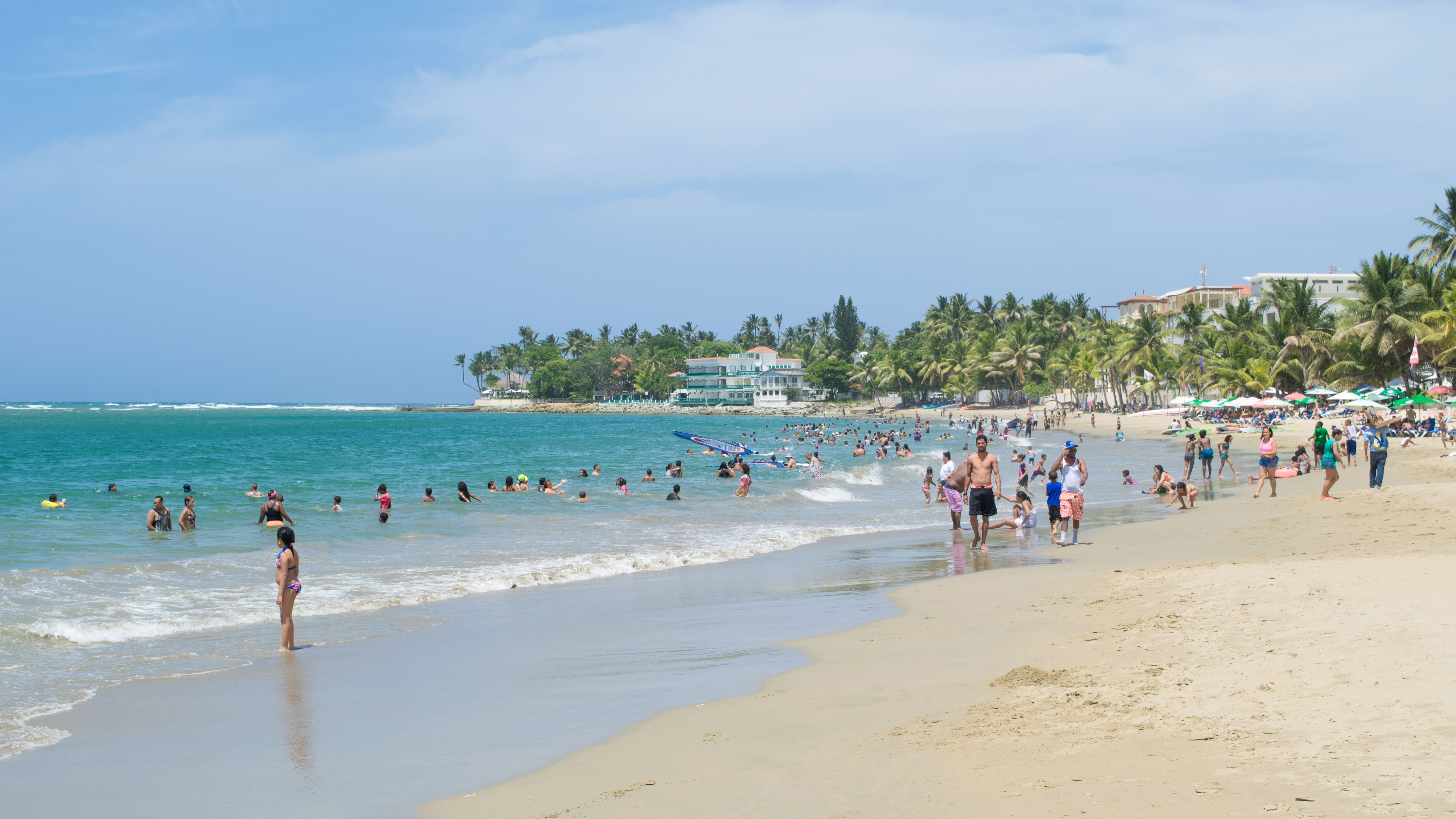 People in Cabarete, Sosua, Dominican Republic beach